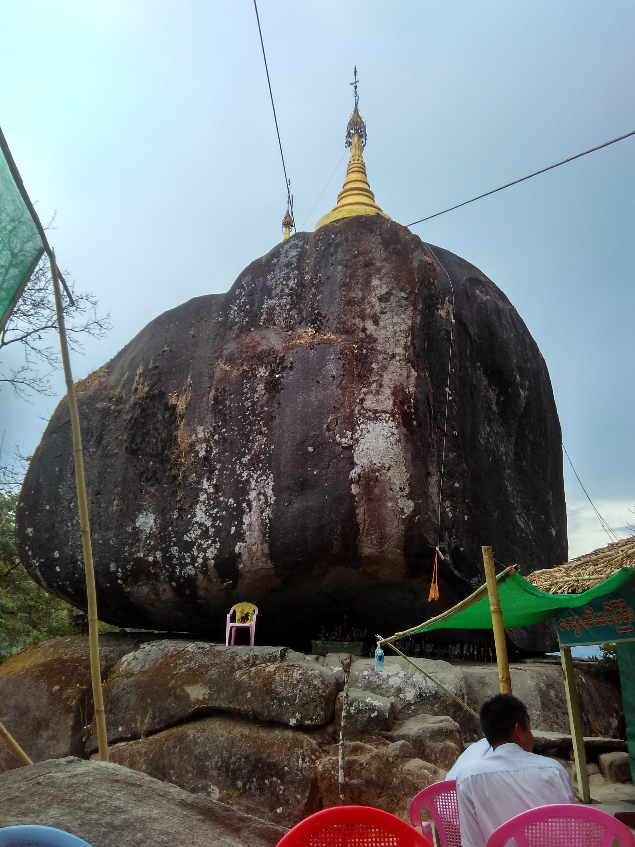 Kyauk Ka Lap Stupa မြန်မာဘာသာ: ကျောက်ကလပ်စေတီတော်။ မွန်ပြည်နယ်၊ ကျိုက်ထိုမြို့၊ ကျိုက်ထီးရိုးသာသနာ့နယ်မြေတွင် တည်ရှိသည်။